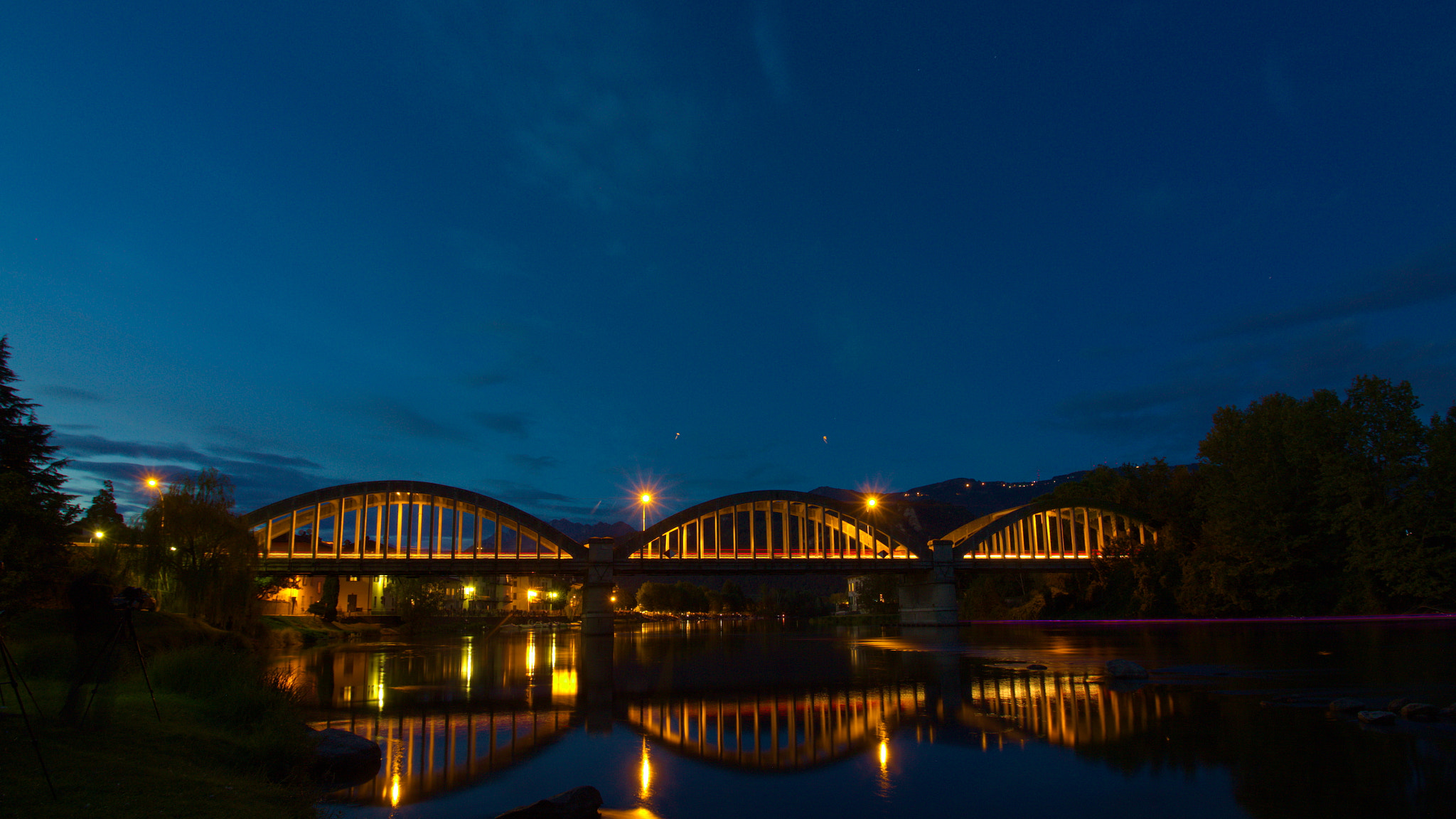 500px provided description: Blue Hour [#reflections ,#water ,#reflection ,#river ,#blue ,#night ,#light ,#lights ,#bridge ,#landscapes ,#long exposure ,#fireworks ,#blue hour ,#riflessi ,#adda ,#fiume ,#brivio]